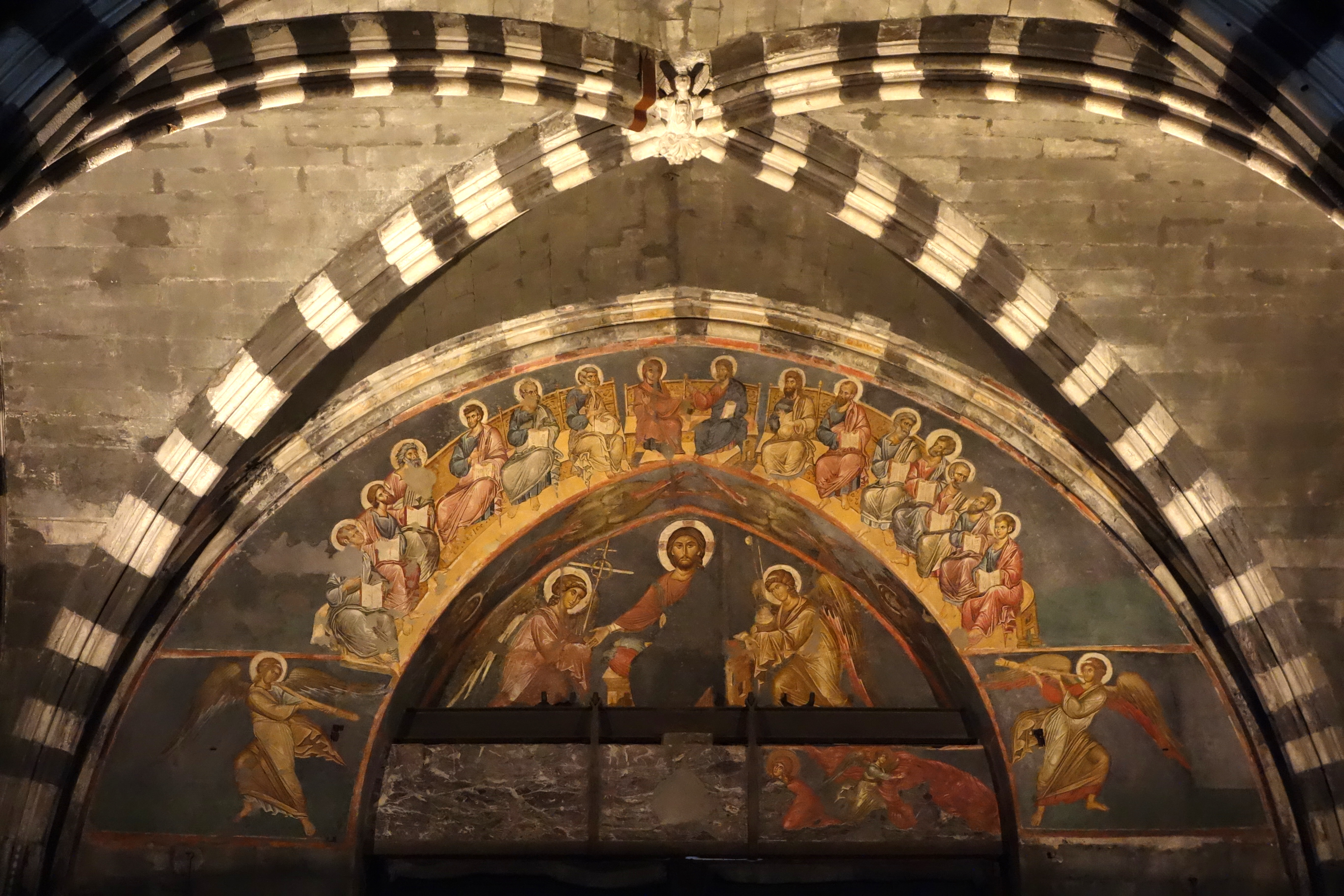 Artwork in the Cathedral San Lorenzo, Genoa, Italy. This artwork is old enough so that it is in the public domain. Photography was permitted in the cathedral without restriction.